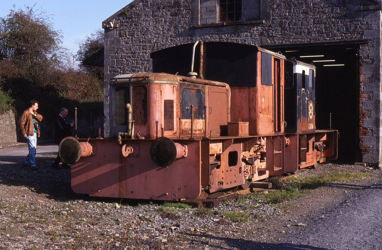 Seen at the ITG preservation centre at Carrick-on-Suir on 23 October 1993. Two G Class shunters nos. G616 and G617 are seen outside the goods shed. Altogether 7 of these shunters were built for CIE and were withdrawn by the early 1980s. Of the two seen here, G617 is currently on loan to the Downpatrick and County Down Railway in Northern Ireland.